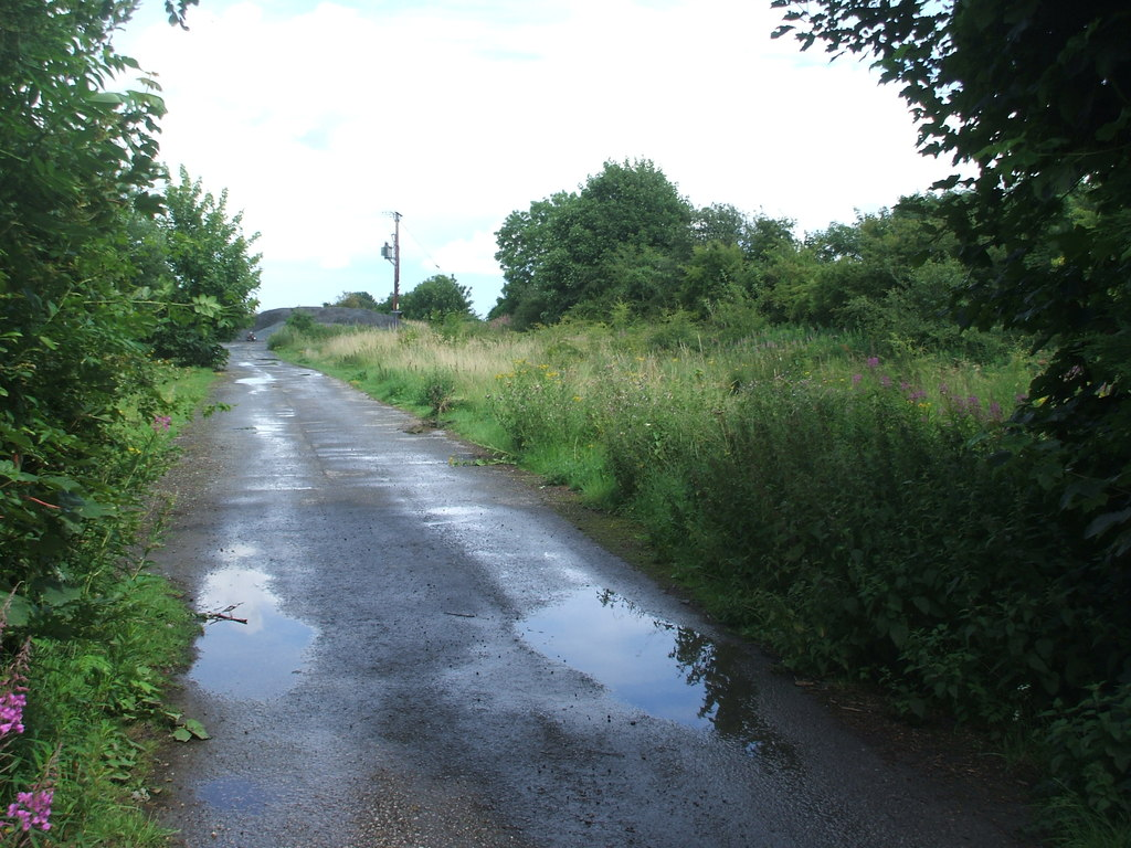 Middleton-on-the-Wolds railway station (site), Middleton-on-the-Wolds, East Riding of Yorkshire, England.Opened in 1890 by the North Eastern Railway on the line from Driffield to Selby, this station closed in 1954 to passengers and completely in 1964. View north east towards Bainton and Driffield. Most traces of the station have gone but from old maps, the two platforms and station building would have been just to the right and the goods shed just out of shot to the left.